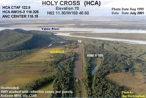 Annotated aerial photograph of Holy Cross Airport (FAA: HCA) in Alaska, United States.